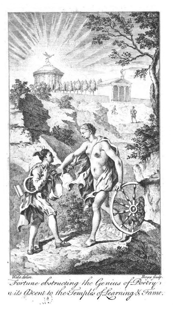 Frontispiece to the book"Poems on Several Occcaisions" by Samuel Boyce, (1757), engraved by him, showing ""Fortune obstructing the Genius of Poetry, in its Ascent to the Temples of Learning and Virtue", engraved by Boce himself.